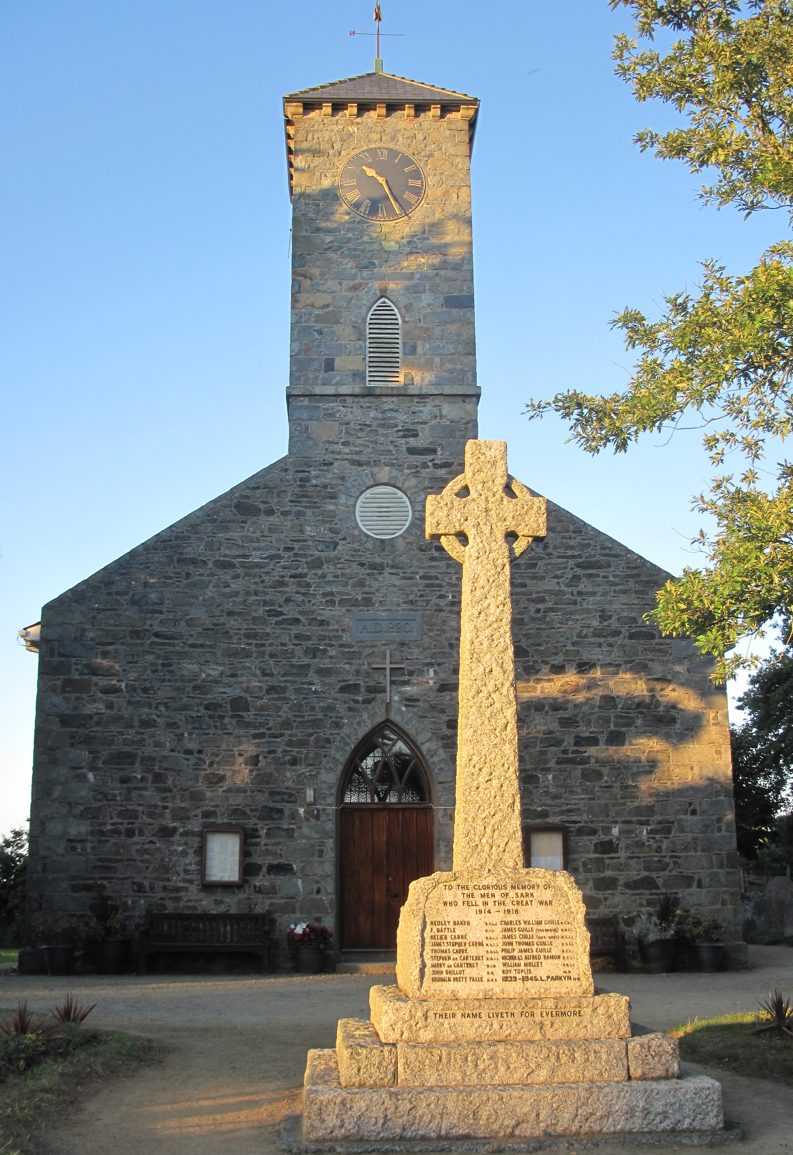 Visit to Sark 2011